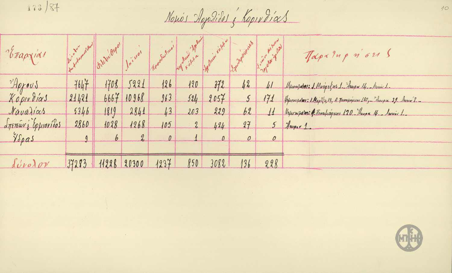 Results of the Greek Elections of September 1932 from the prefectures of Argolis and Korinthia